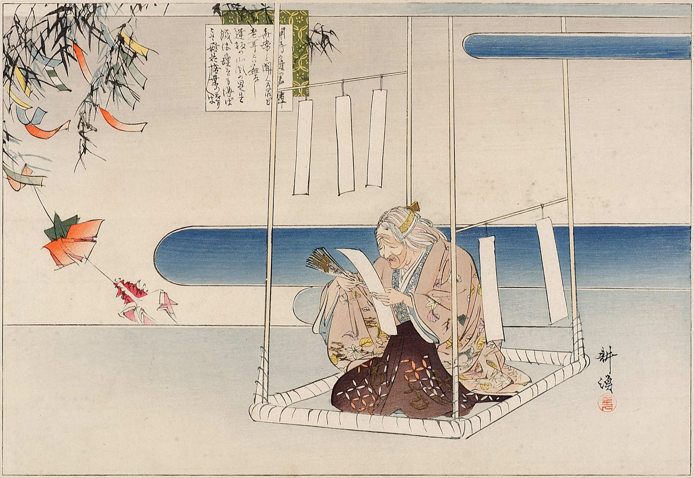 Scene form "Sekidera Komachi " Nô-play